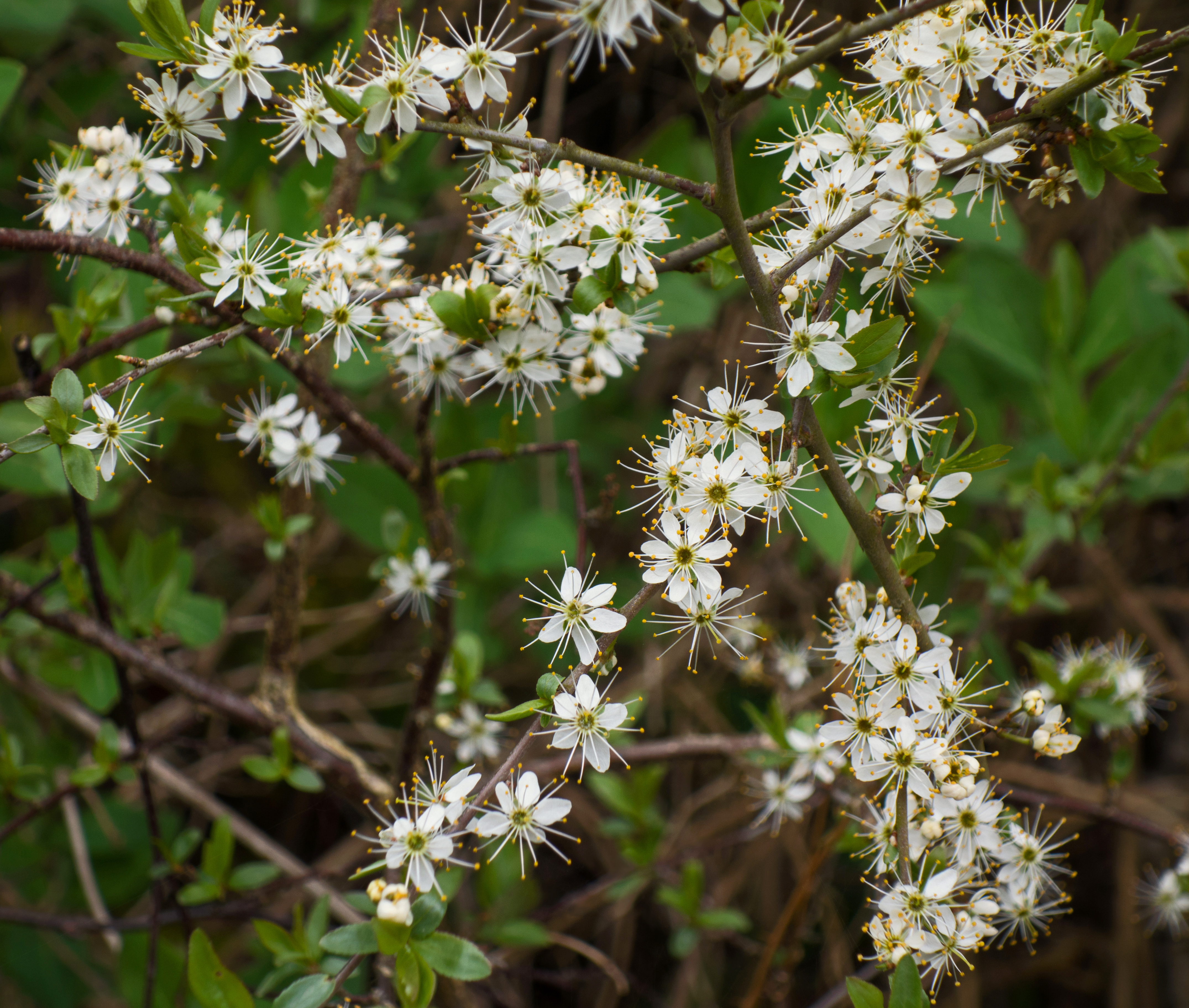 Blackthorn (Prunus spinosa) bushes in flower at Holma boat club, Lysekil Municipality, Sweden.